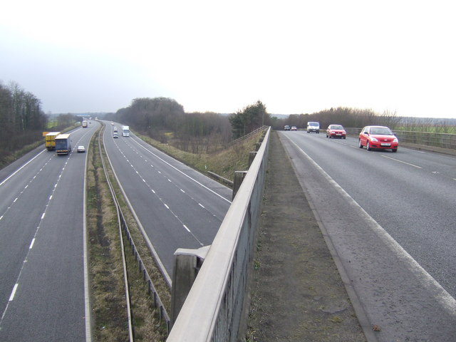 Road crossing motorway The A18 crossing the M180 at an acute angle hence this picture of both at once.